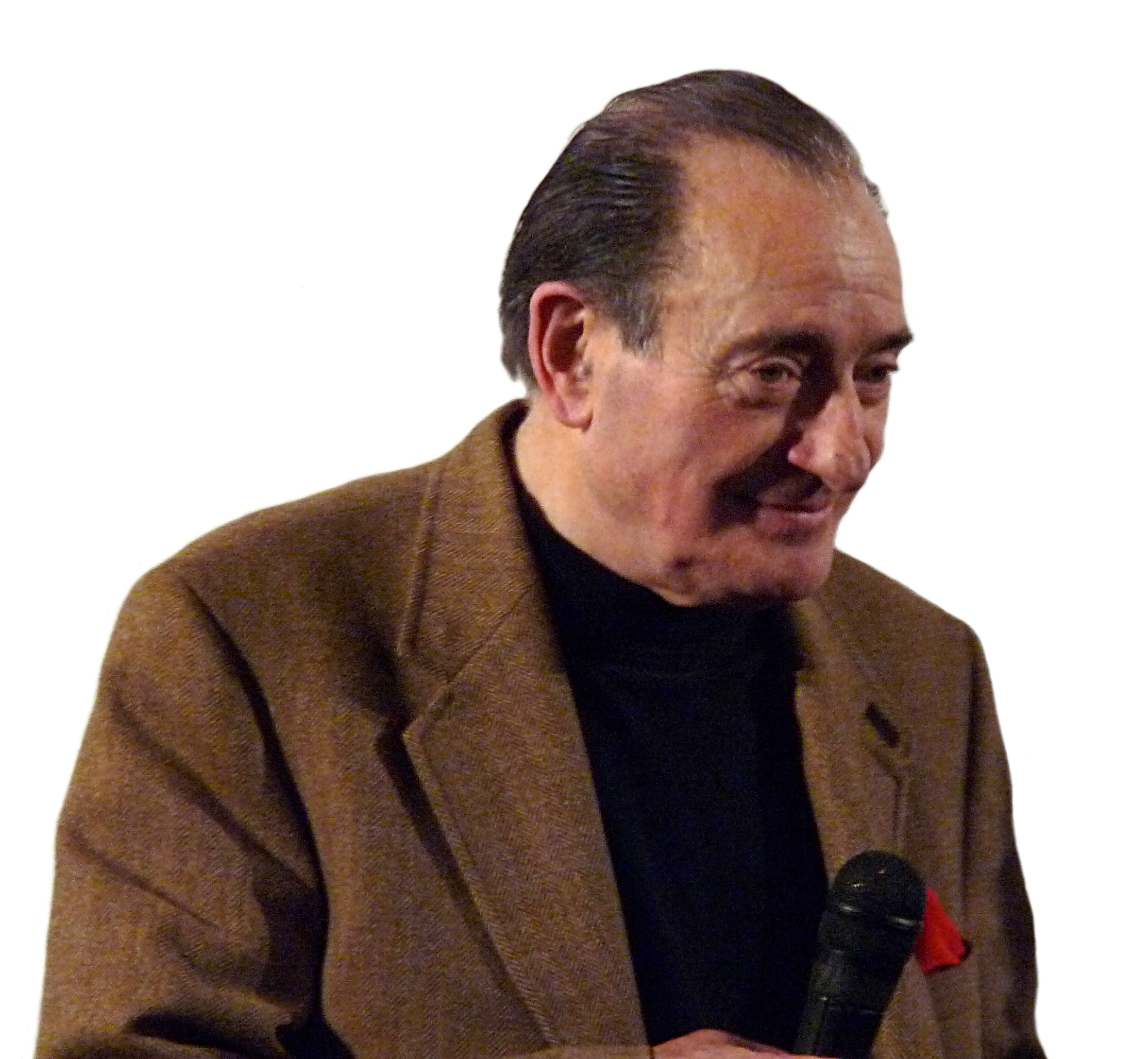 French director Pierre Étaix in movie theatre Diagonal Capitole in Montpellier